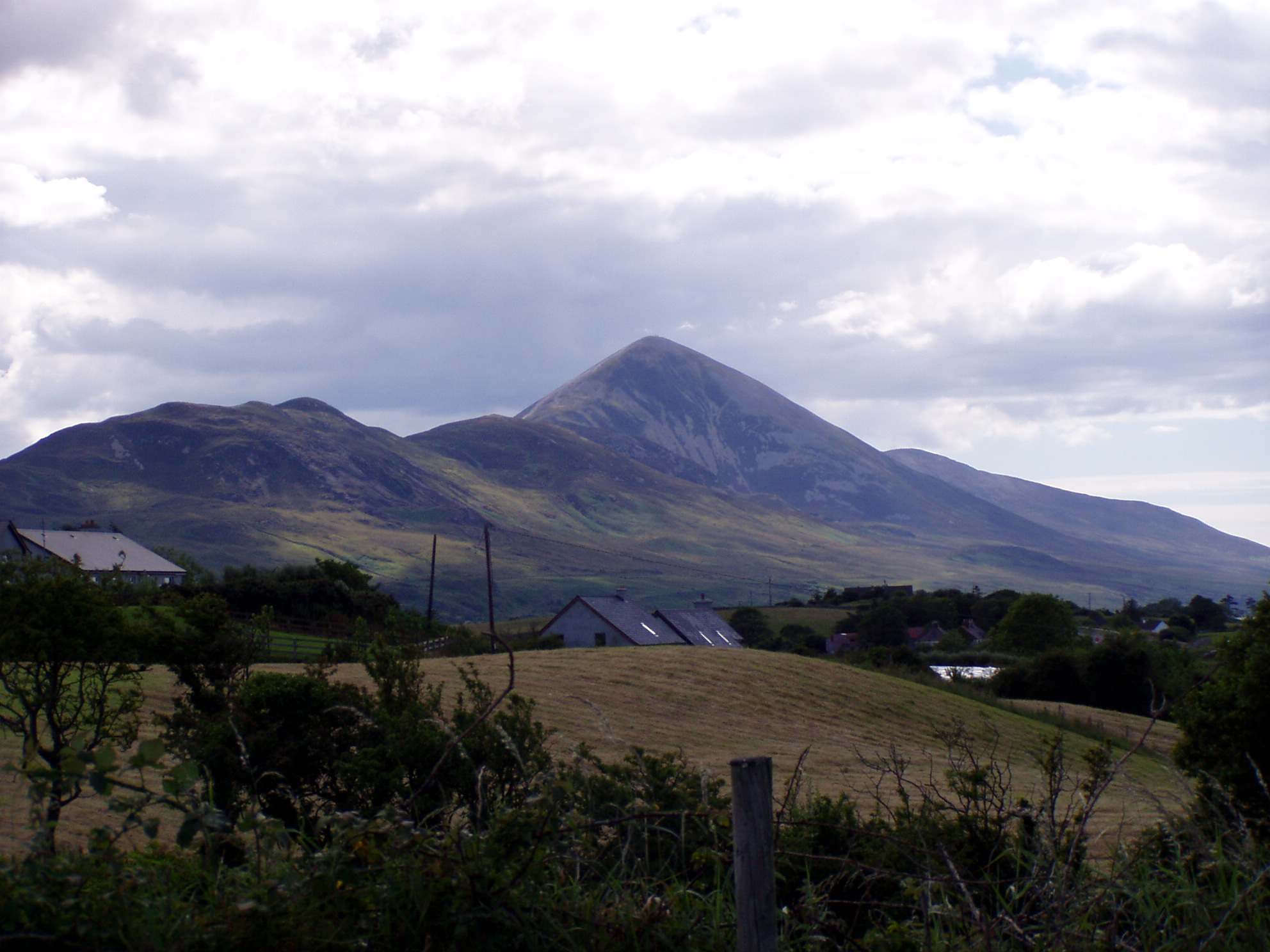 Croagh Patrick near Westport, Ireland